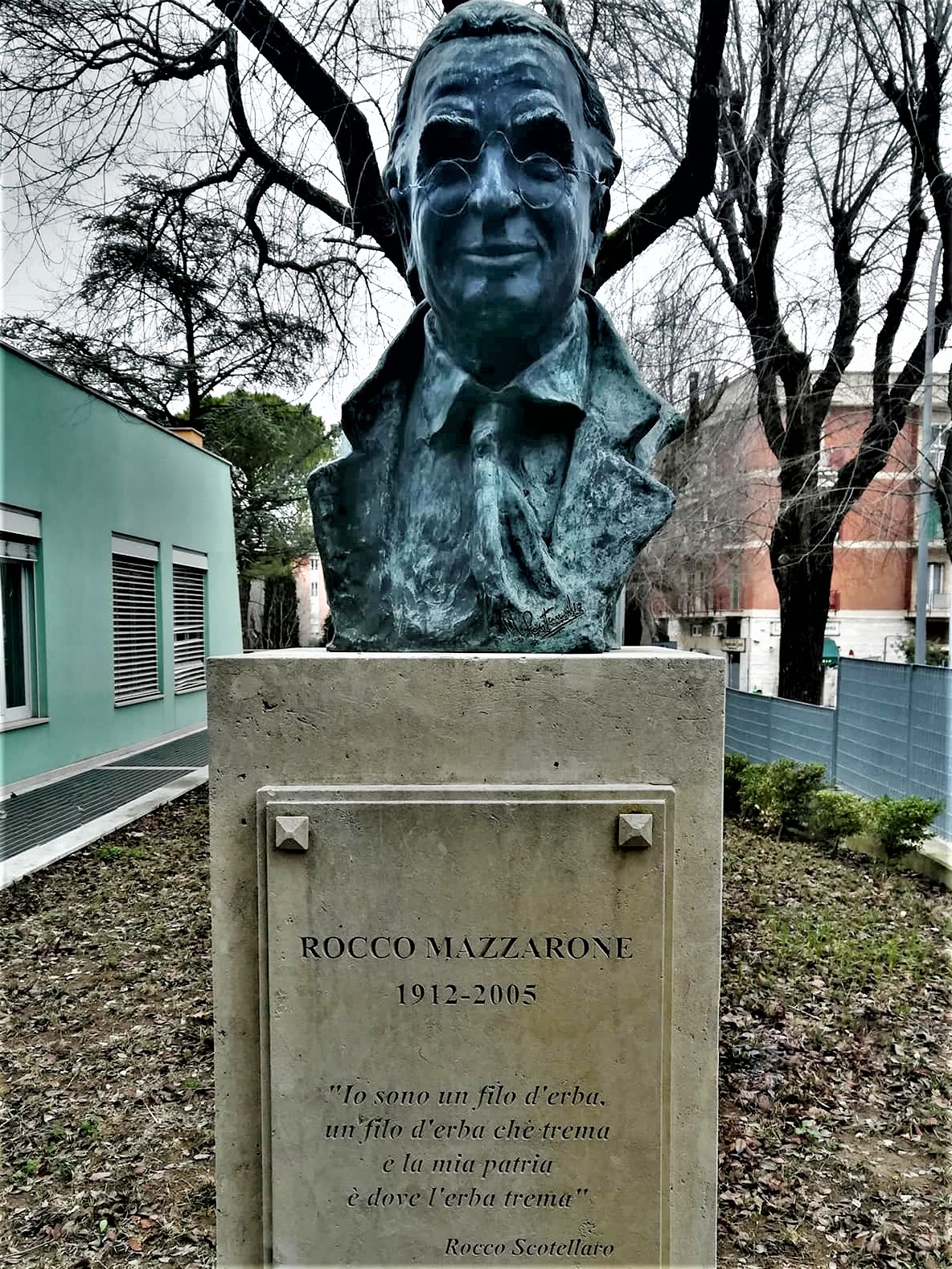 This picture represents Rocco Mazzarone, an Italian doctor from Tricarico (Basilicata)